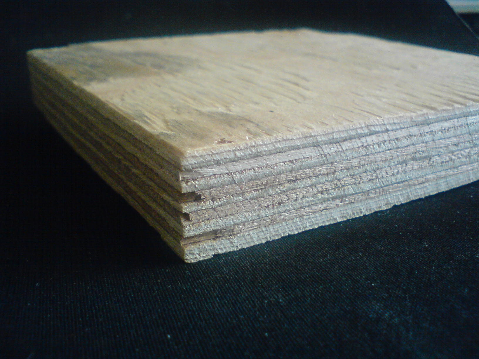 Plywood